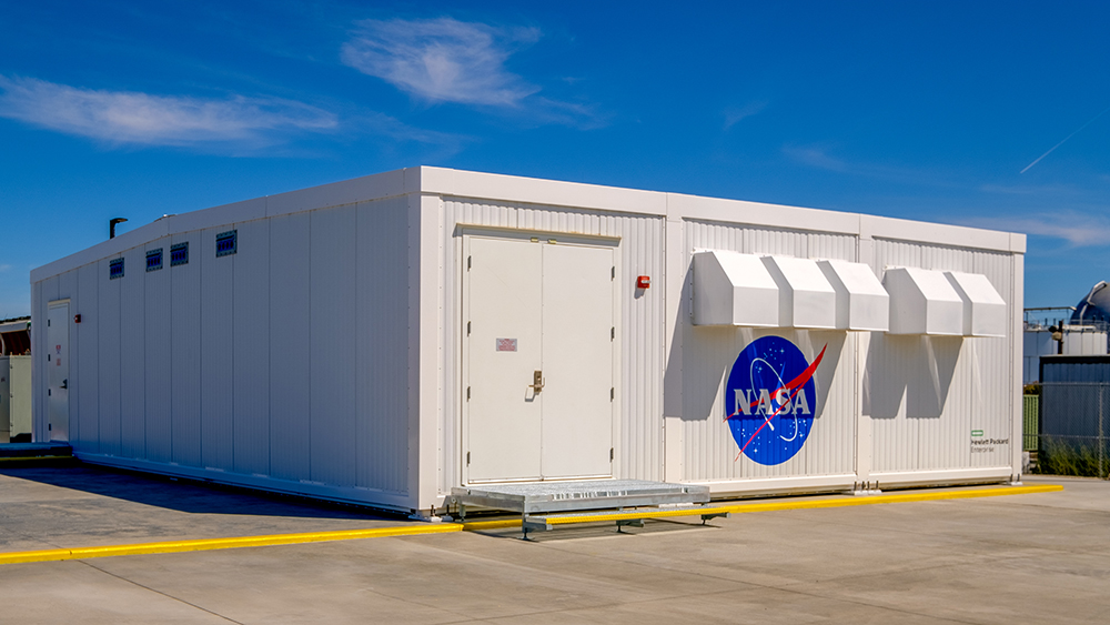 Aitken supercomputer shed, located at Ames Research Center